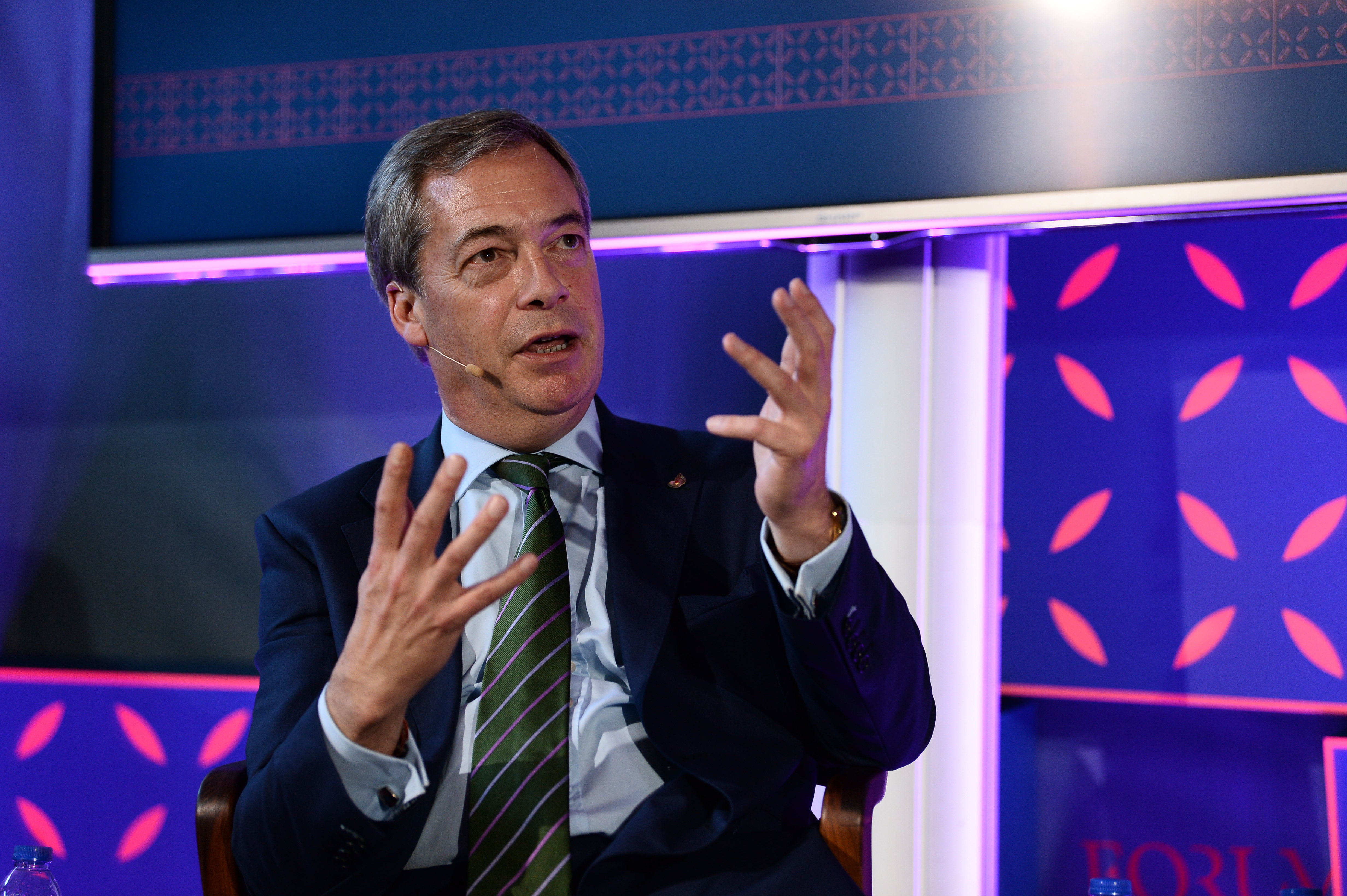 8 November 2017; Nigel Farage, Former Leader of UKIP & MEP, European Parliament, on the Forum North Stage during day two of Web Summit 2017 at Altice Arena in Lisbon. Photo by Diarmuid Greene/Web Summit via Sportsfile